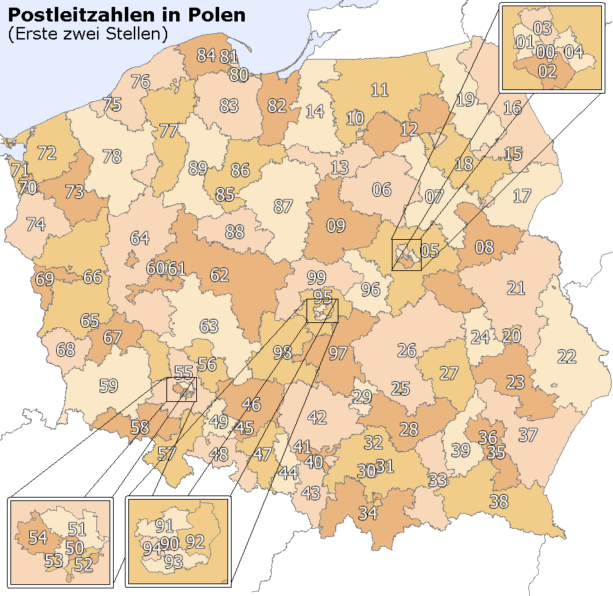 2-digit postcode areas Poland (defined through the first two postcode digits).